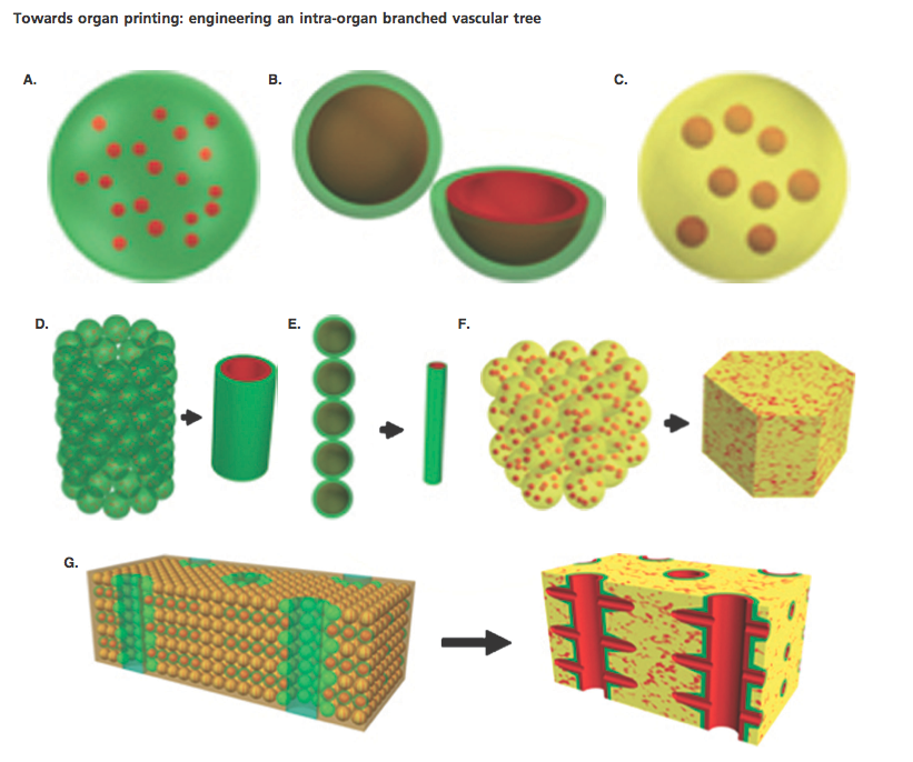 Organ printing.